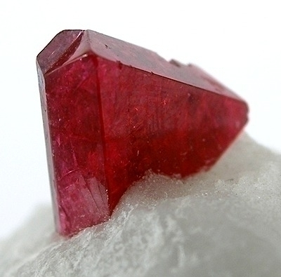 Spinel Locality: Mogok, Pyin Oo Lwin District, Mandalay Division, Burma (Myanmar) (Locality at ) Size: 4.0 x 3.1 x 2.9 cm. An unusually gemmy 9mm spinel perched on marble matrix. This spinel crystal is twinned in the form of a macle (also occurring in diamonds). Such crystals are rare; on matri, all the more so given the current embargo on trade with Burma (this specimen is pre-embargo). Ex. Laura and Stevia Thompson Collection.